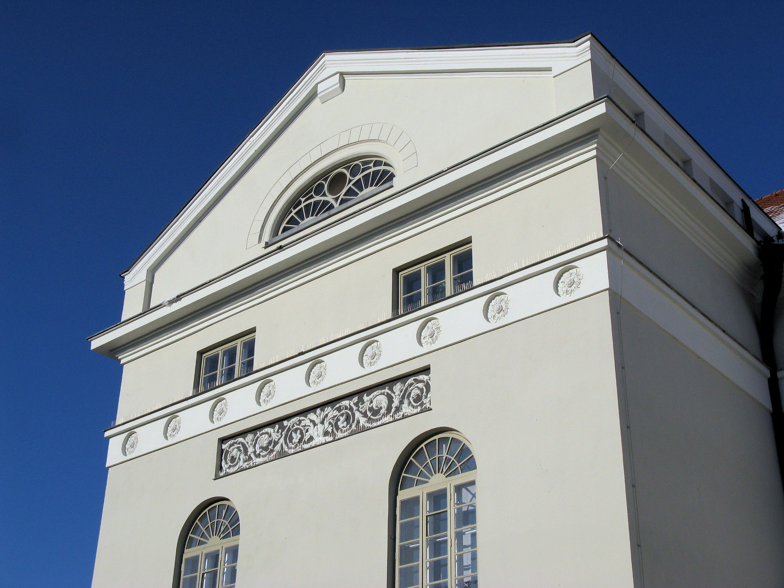 Town hall (detail) in Wismar, Mecklenburg-Vorpommern, Germany